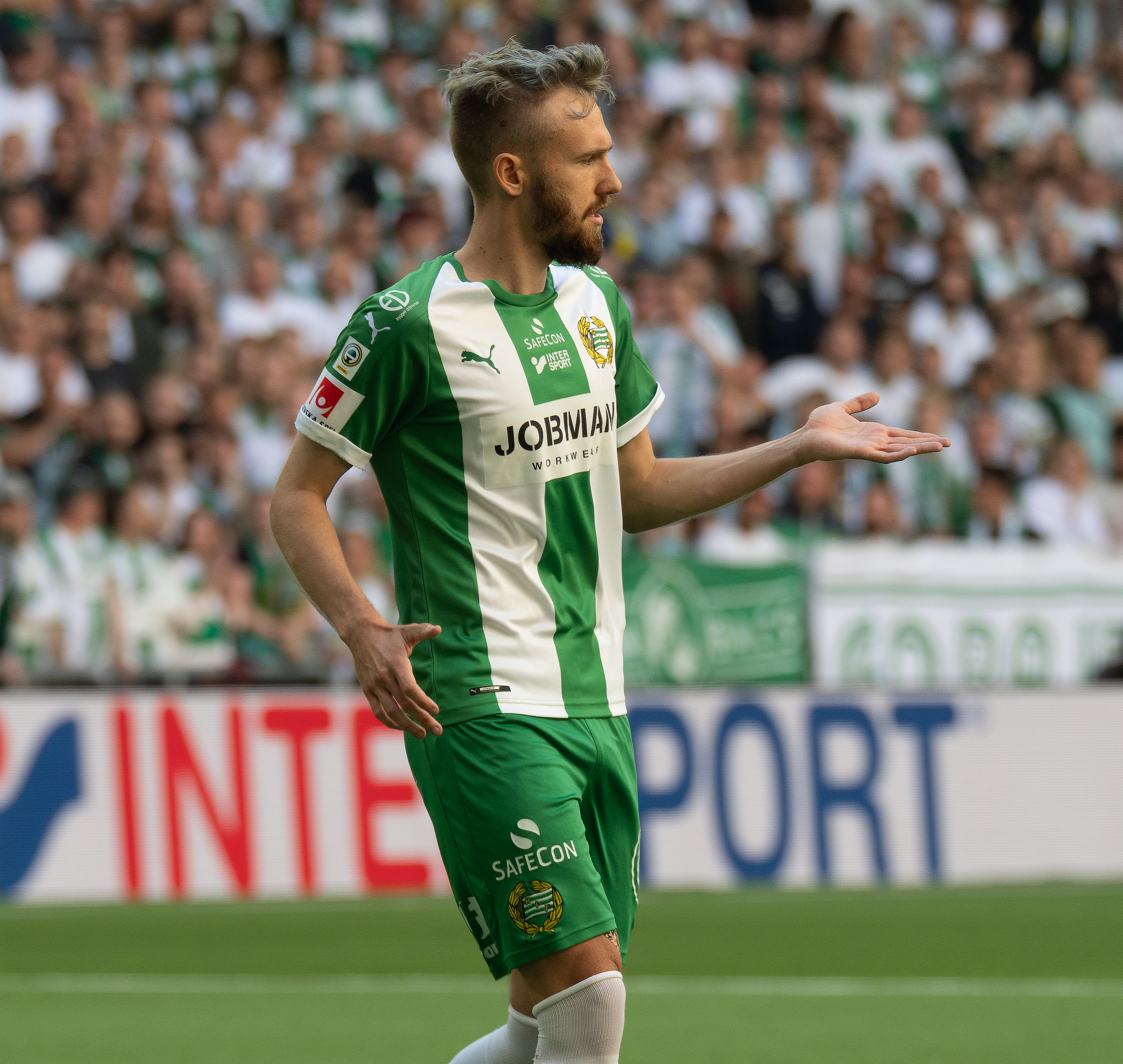 Hammarby IF - Djurgården IF 2018-09-03